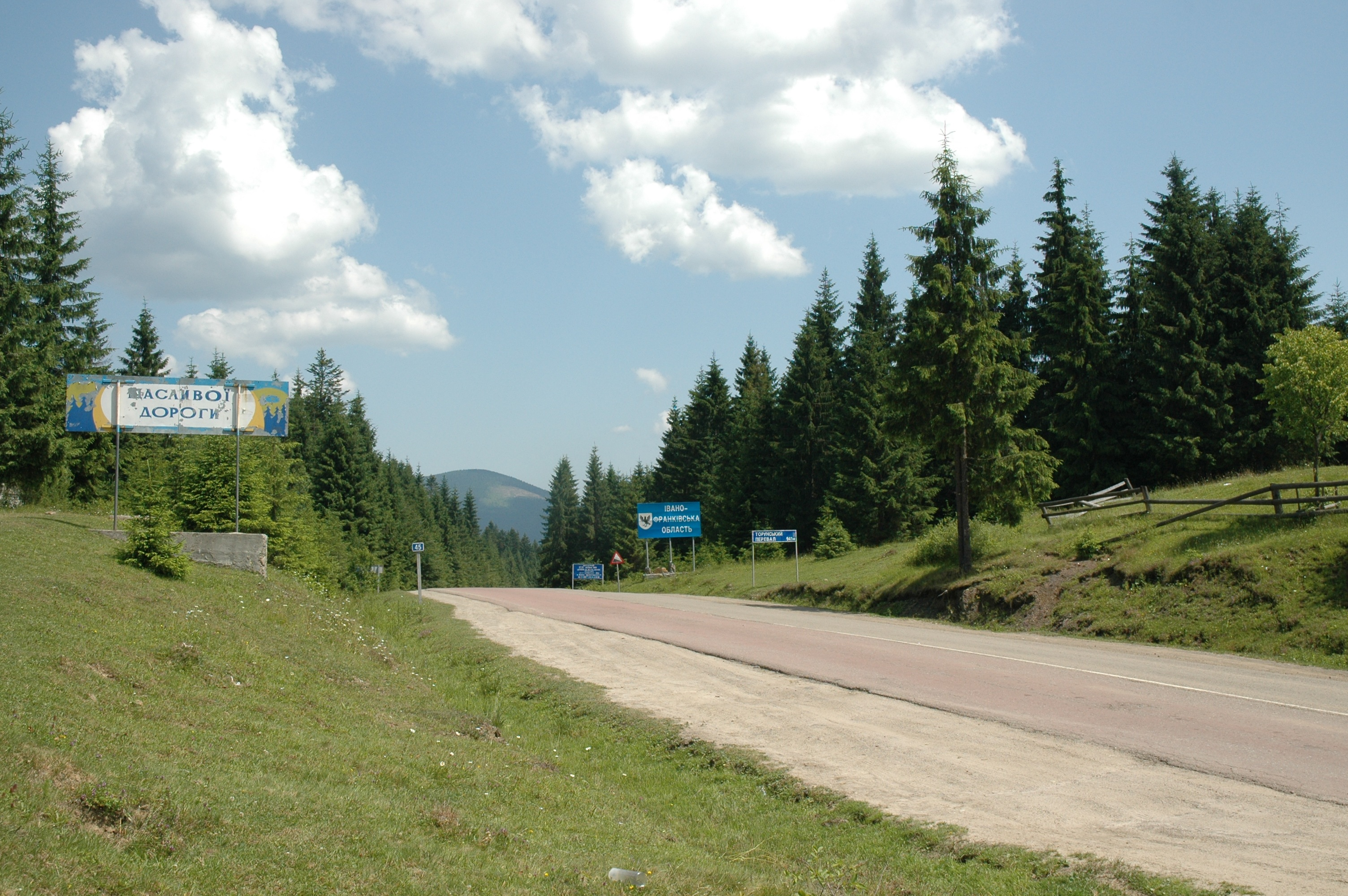 Torunskyy Pass (Carpathian Mountains, Ukraine)